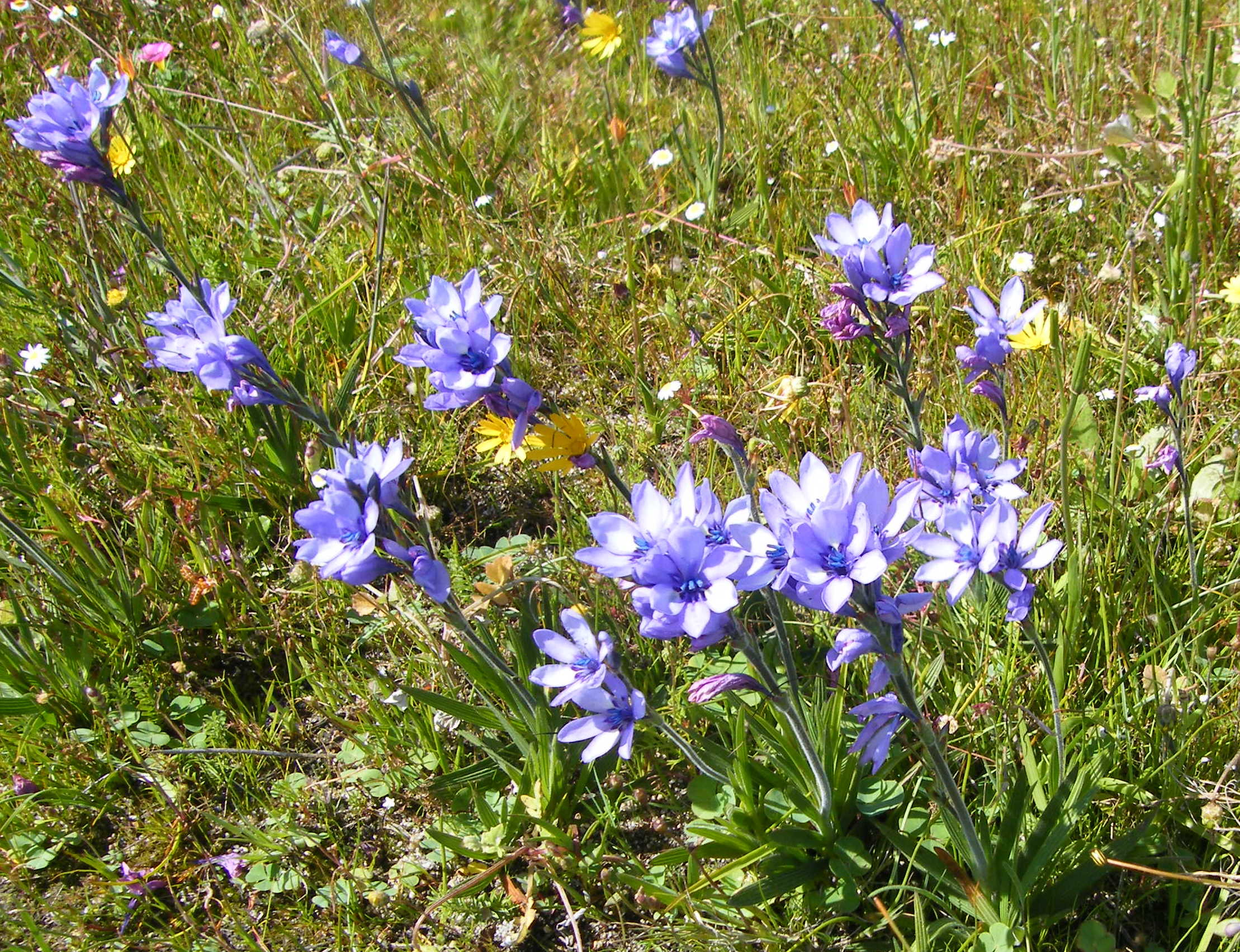 Formerly dischita. Rondebosch Common Cape Town